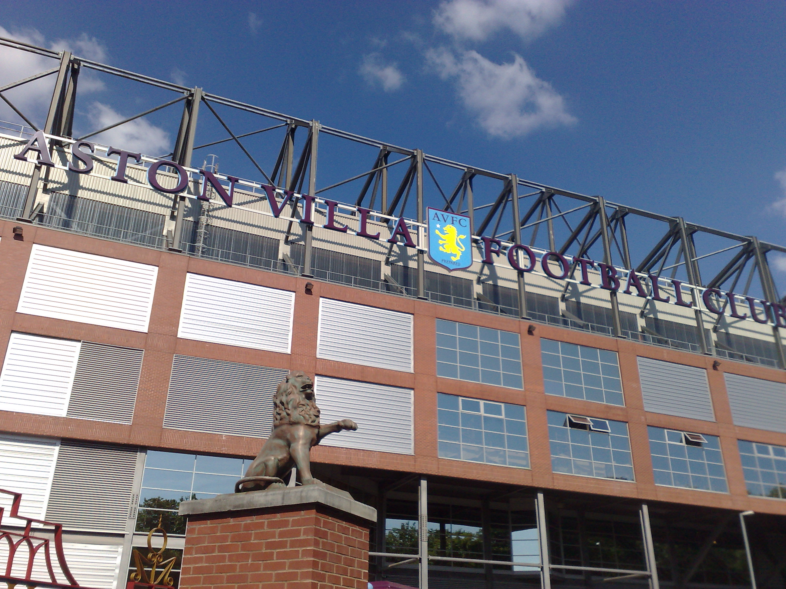 This is the facade of the Trinity Road Stand of the English football ground, Villa Park. Villa Park is the home of Aston Villa football club of Birmingham, UK.